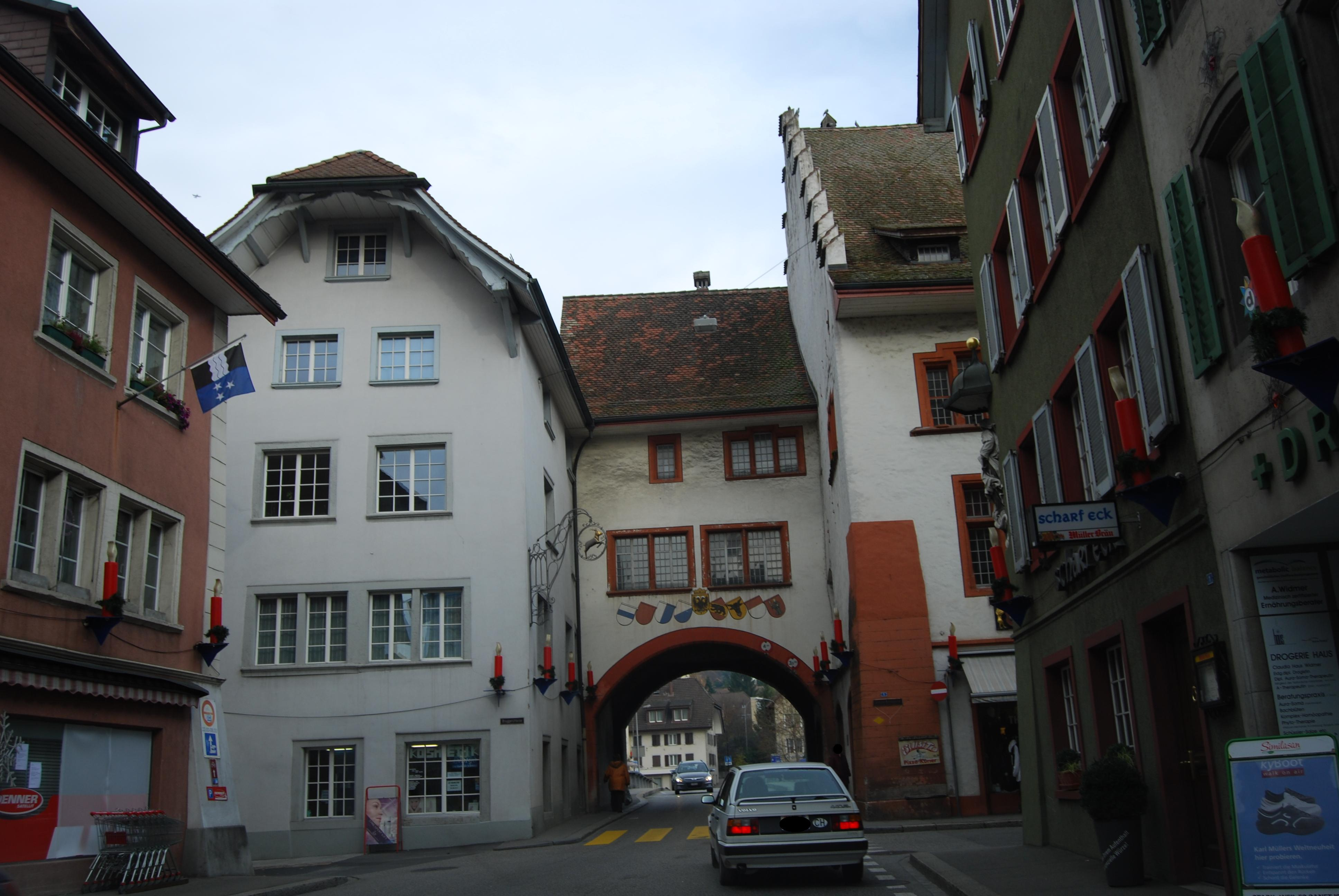 Mellingen city gate, canton of Aargau, SwitzerlandEsperanto: Mellingen urbopordego, Kantono Argovio, Svislando